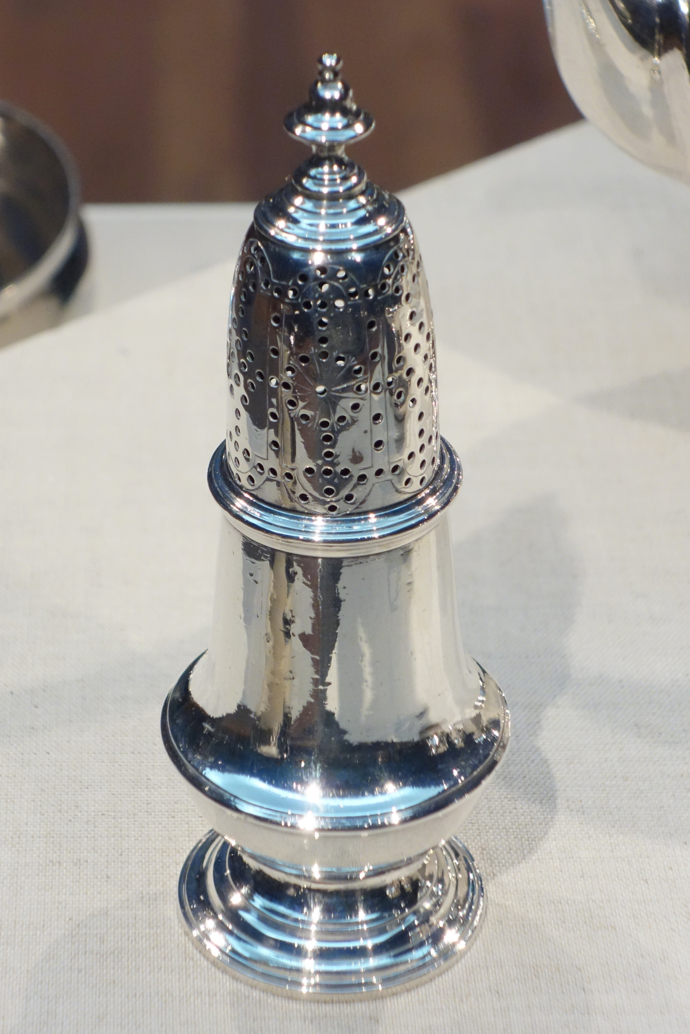 Exhibit in the De Young Museum, San Francisco, California, USA. This artwork is in the public domain because the artist died more than 70 years ago.